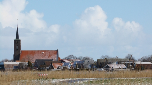 View on Ursem